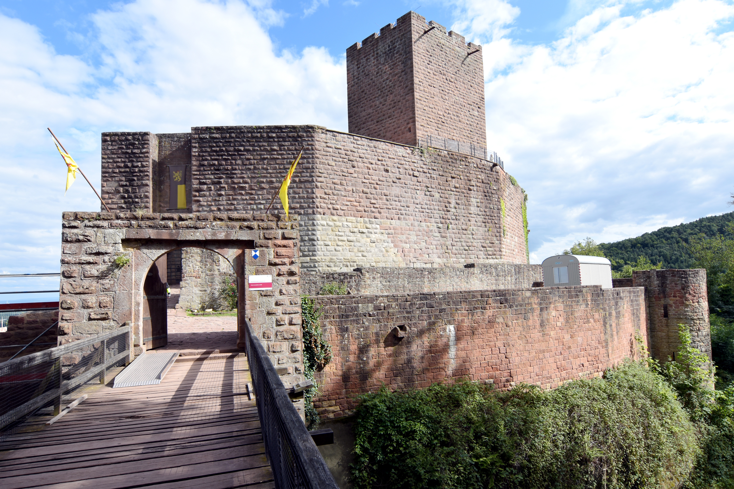 Burg Landeck (Pfalz)